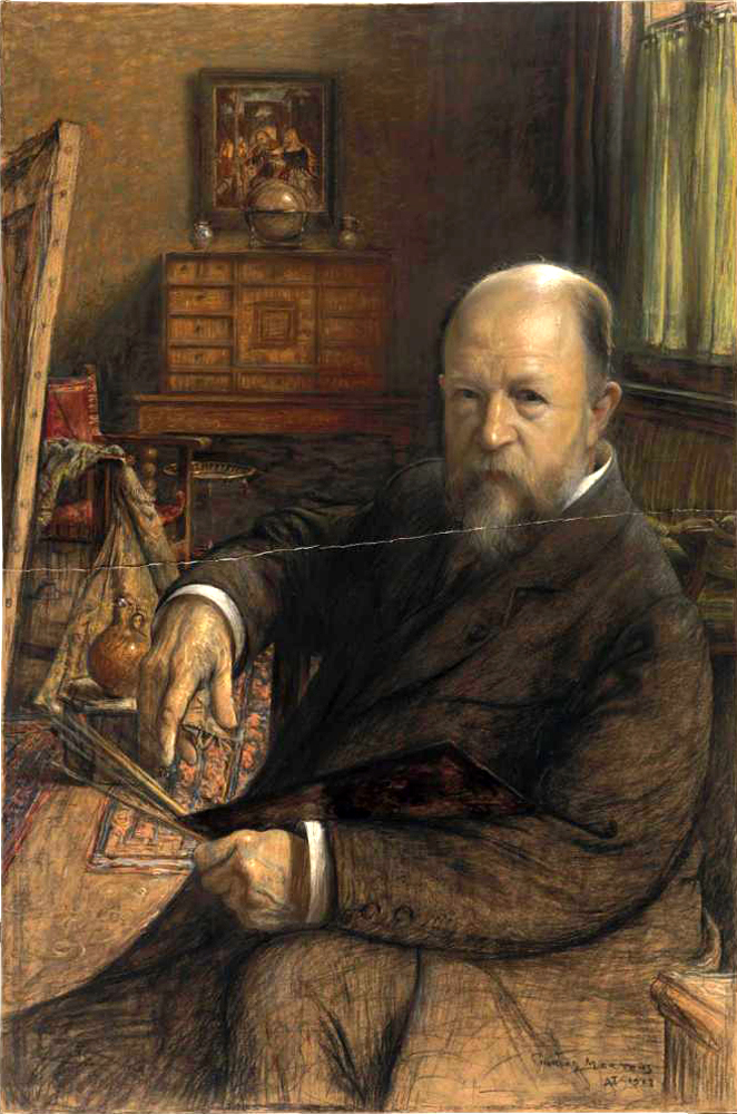 Portrait of Frans Van Leemputten (1850-1914)